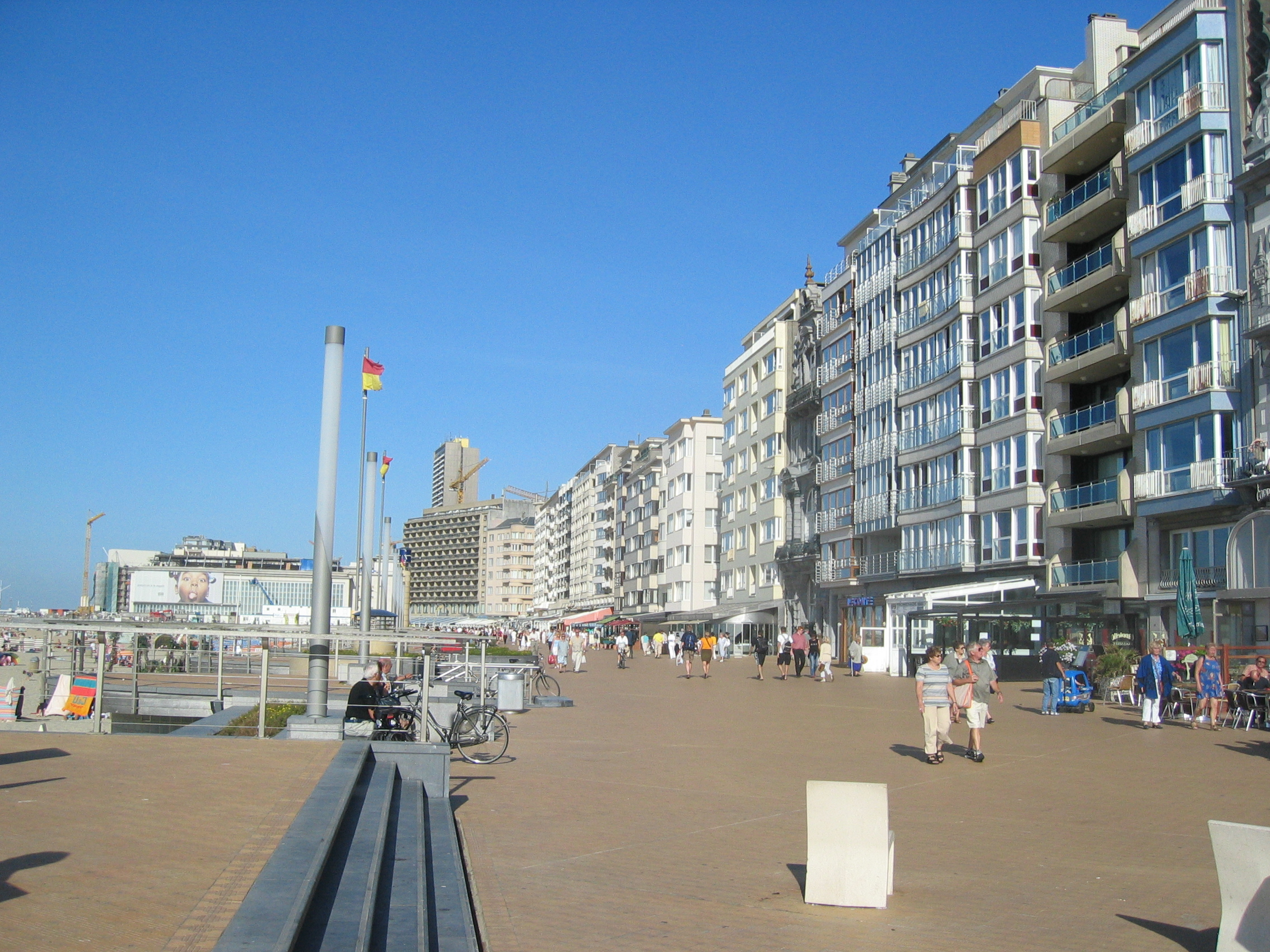 Albert-I-promenade along the beach at Ostend.